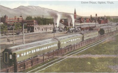 RR depot in Ogden Utah 1910; colorized postcard Other information na